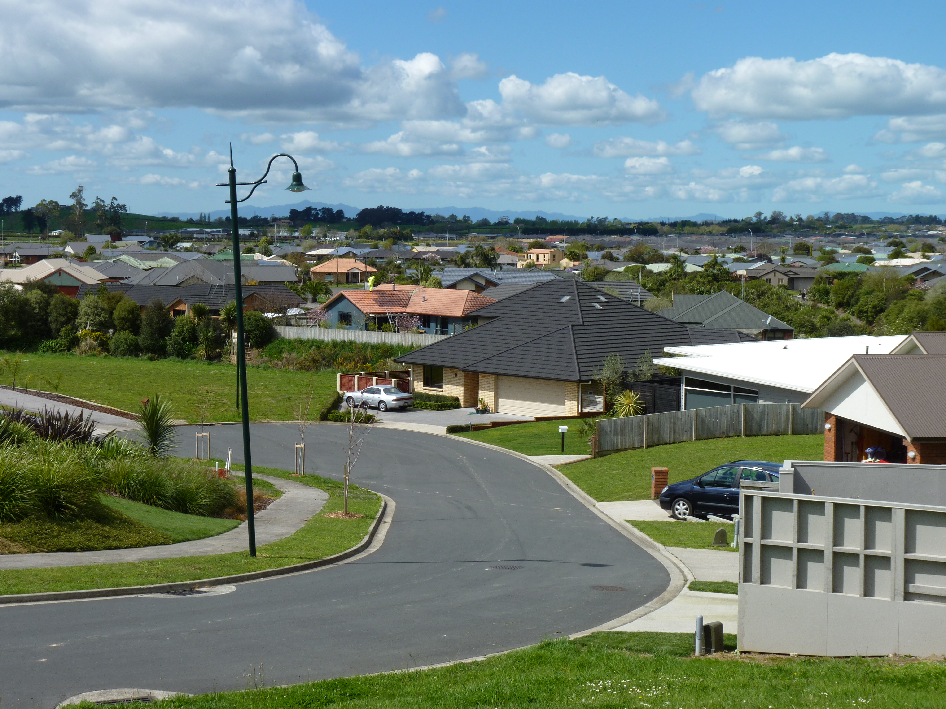 Magellan Rise, northeast Hamilton, New Zealand.